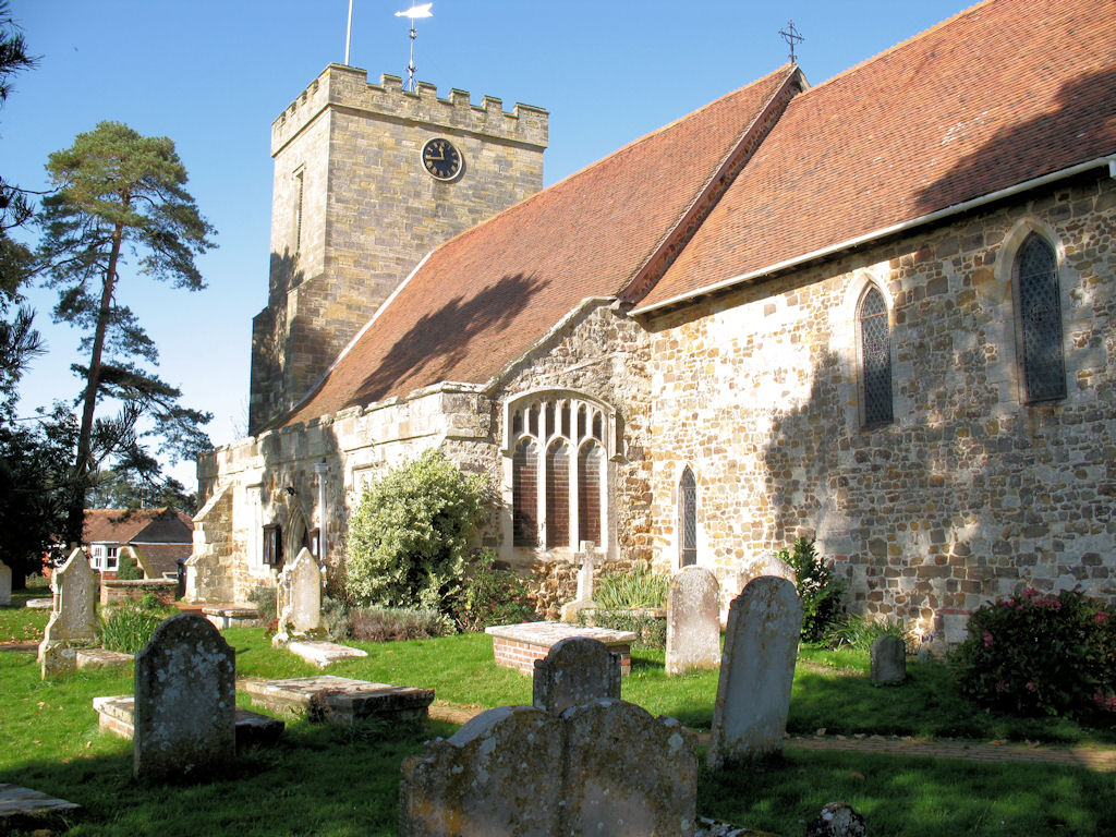 View of the tower on the church of St Peter & St Paul, parish church of Hellingly, East Sussex, England